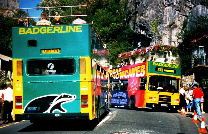 Two tour buses in Cheddar Gorge Somerset, England. They are two open top Roe-bodied Leyland Olympians operated by Badgerline. On the left is 8613 (A813 THW) in fleet livery, on the right is 8609 (A809 THW) in Cheddar Showcaves advertising livery.